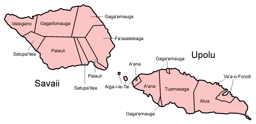 Map of the districts of Samoa, named in English. Made by User:Golbez.